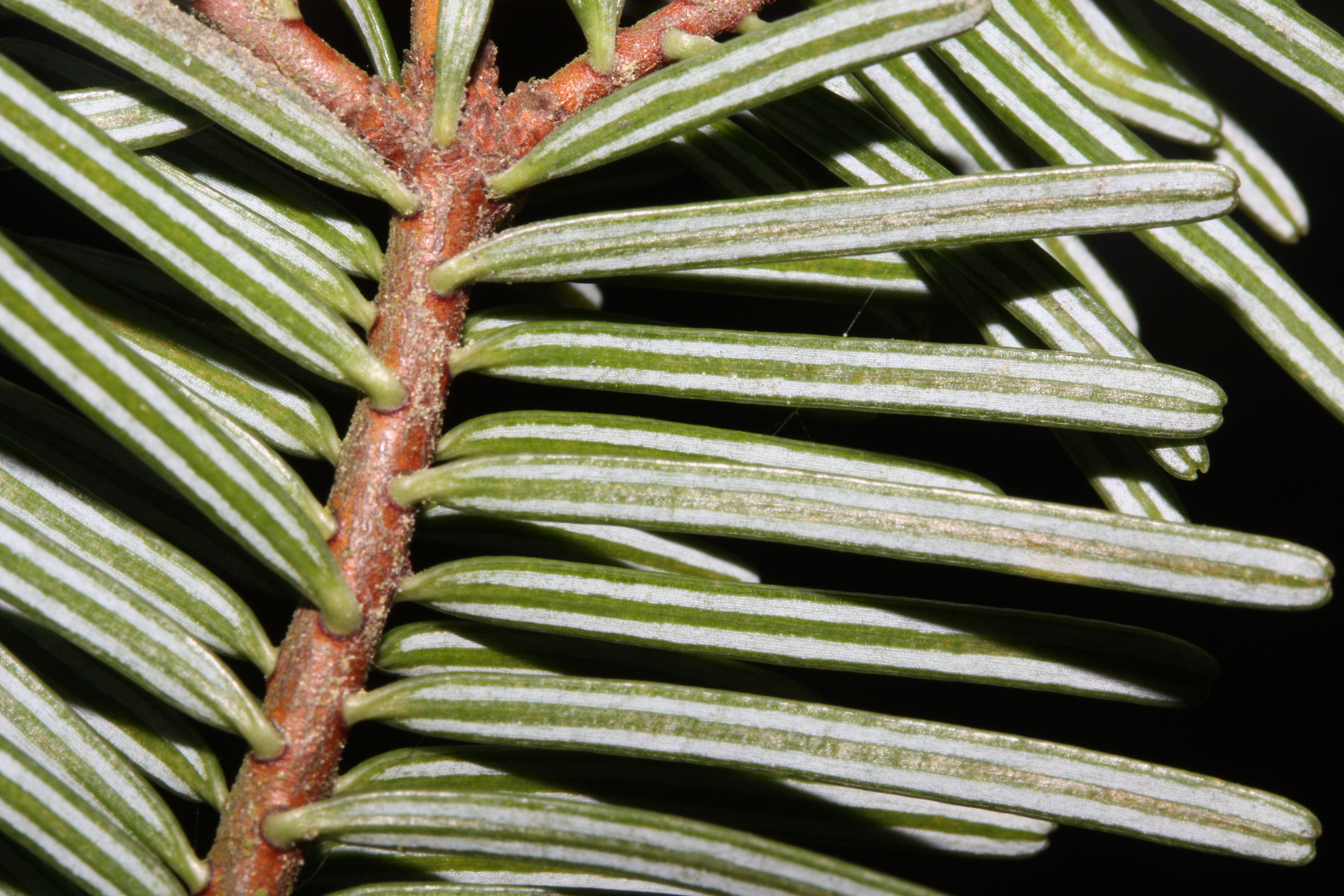 Grand Fir